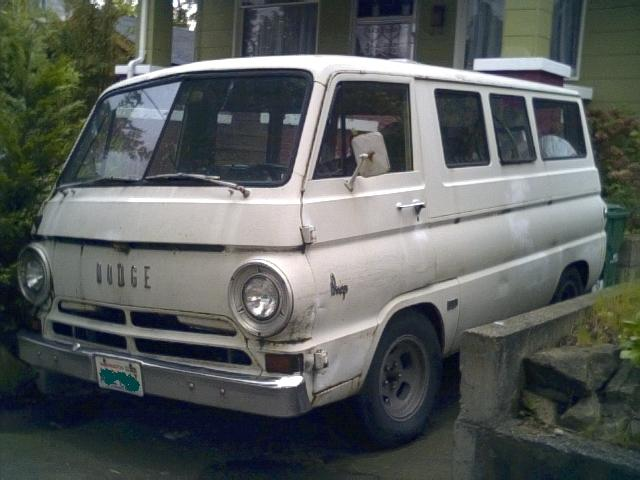 Dodge A100, the sort of car your likely to find in an area with lots of artists and ex-hippies.